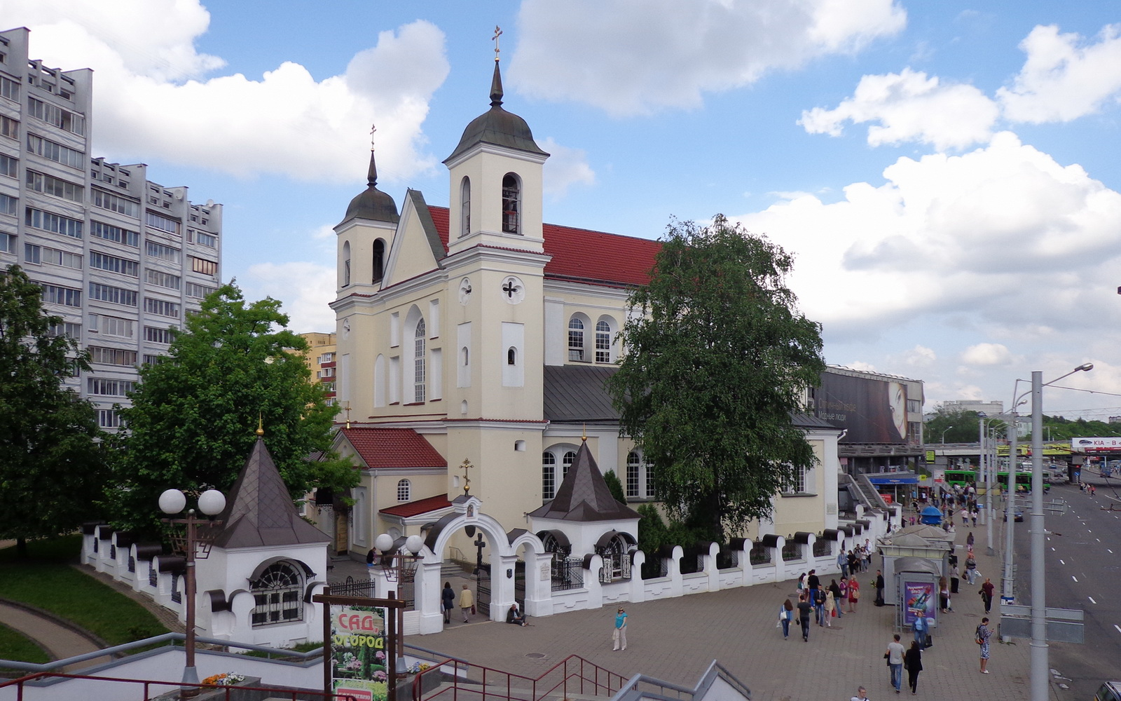 Minsk. St Peter and St Paul orthodox church (1612)